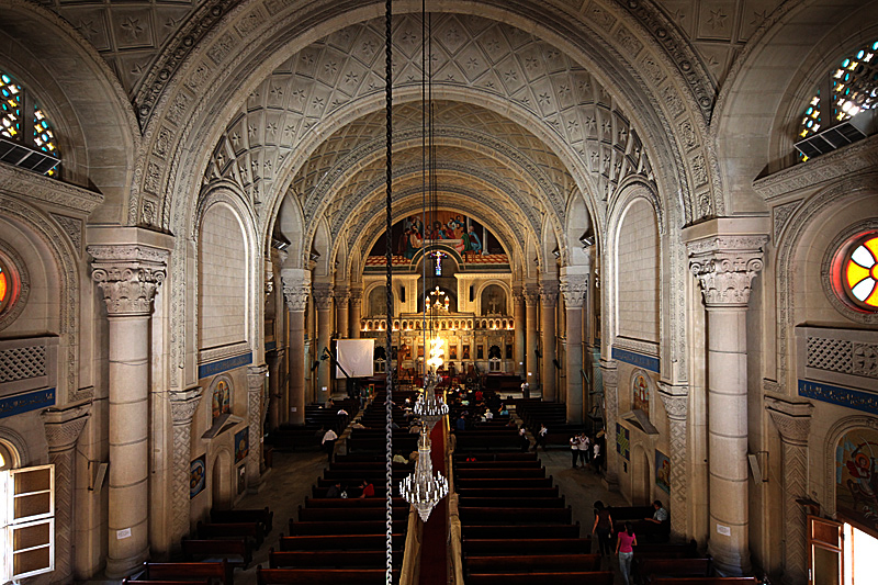 Inside the Coptic orthodox Cathedral of St. Mark, Alexandria, Egypt